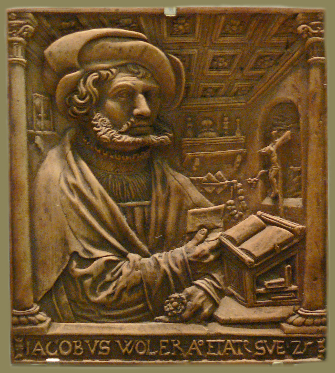 Peter Dell the Elder: Portrait of Jakob Woler; Würzburg 1529; boxwood Bayerisches Nationalmuseum München, Inv. Nr. 28/39